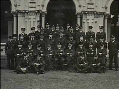 AWM Caption: Melbourne, Victoria. Group portrait of staff officers of No. 4 Maintenance Group RAAF.